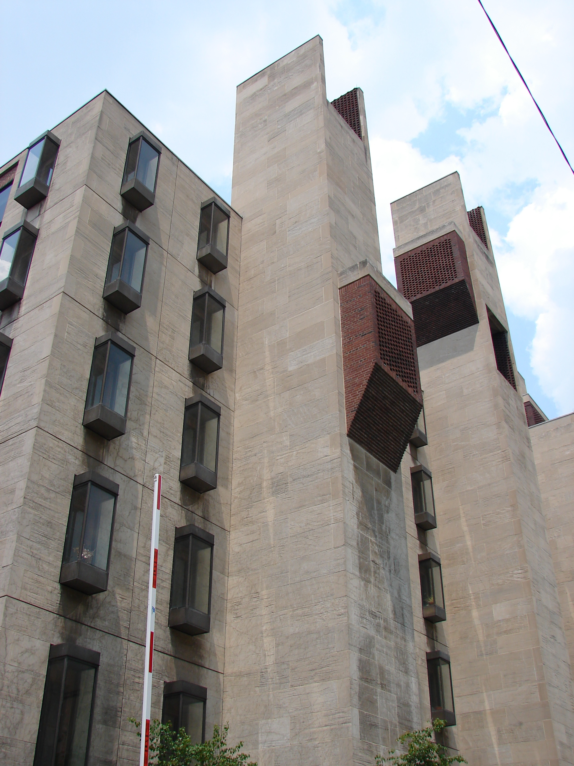 Designed by I.W. Colburn and J. Lee Jones and built in 1968.